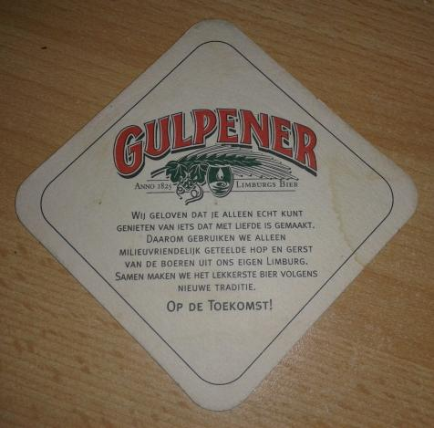 Gulpener coaster (beermat)